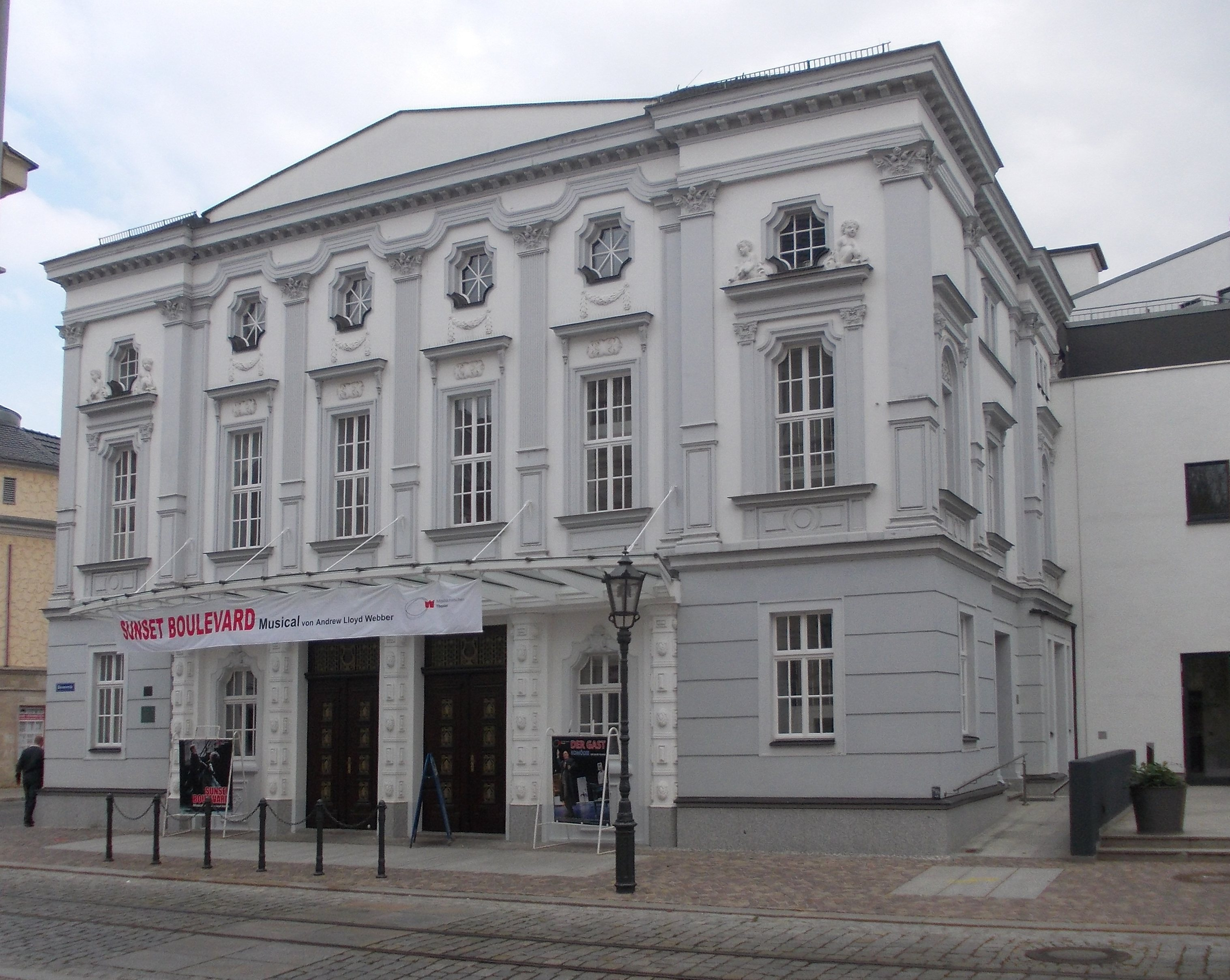 The theatre in Döbeln (Mittelsachsen district, Saxony(